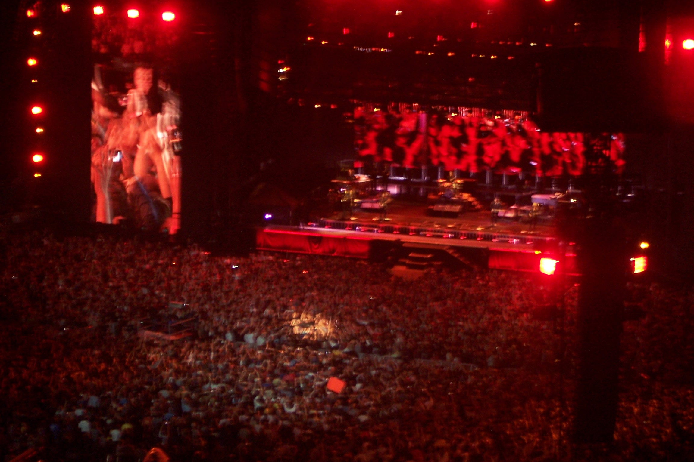 Bruce Springsteen crowd surfing as he and the E Street Band perform "Hungry Heart" at Giants Stadium in New Jersey